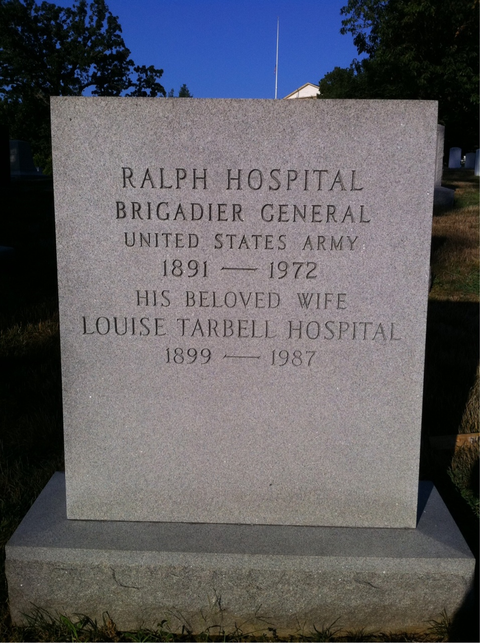 Grave of Ralph Hospital at Arlington National Cemetery